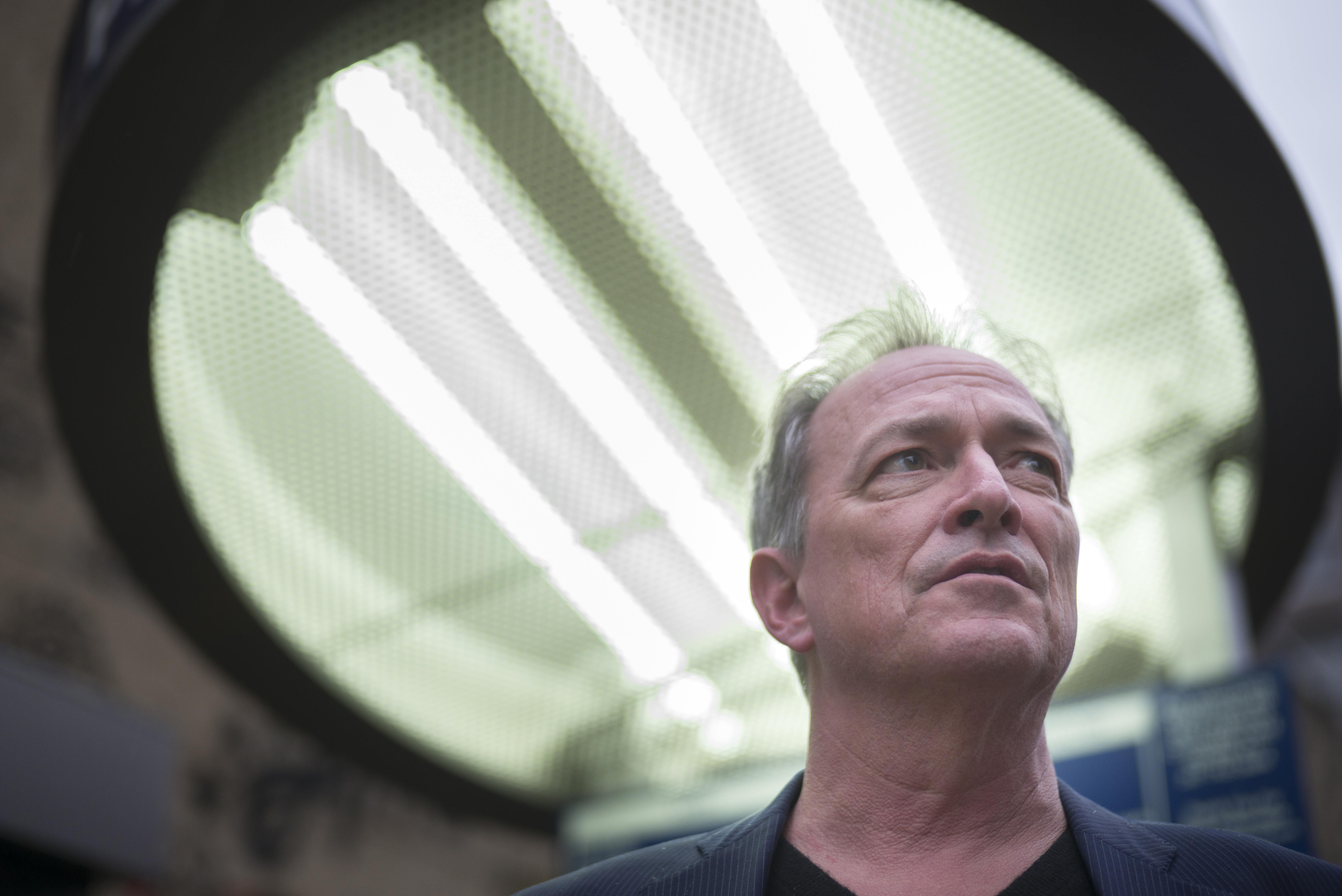 The drummer Jimmy Drnec, best known as a member of the glam metal band Cinderella